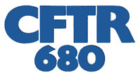 CFTR Final logo